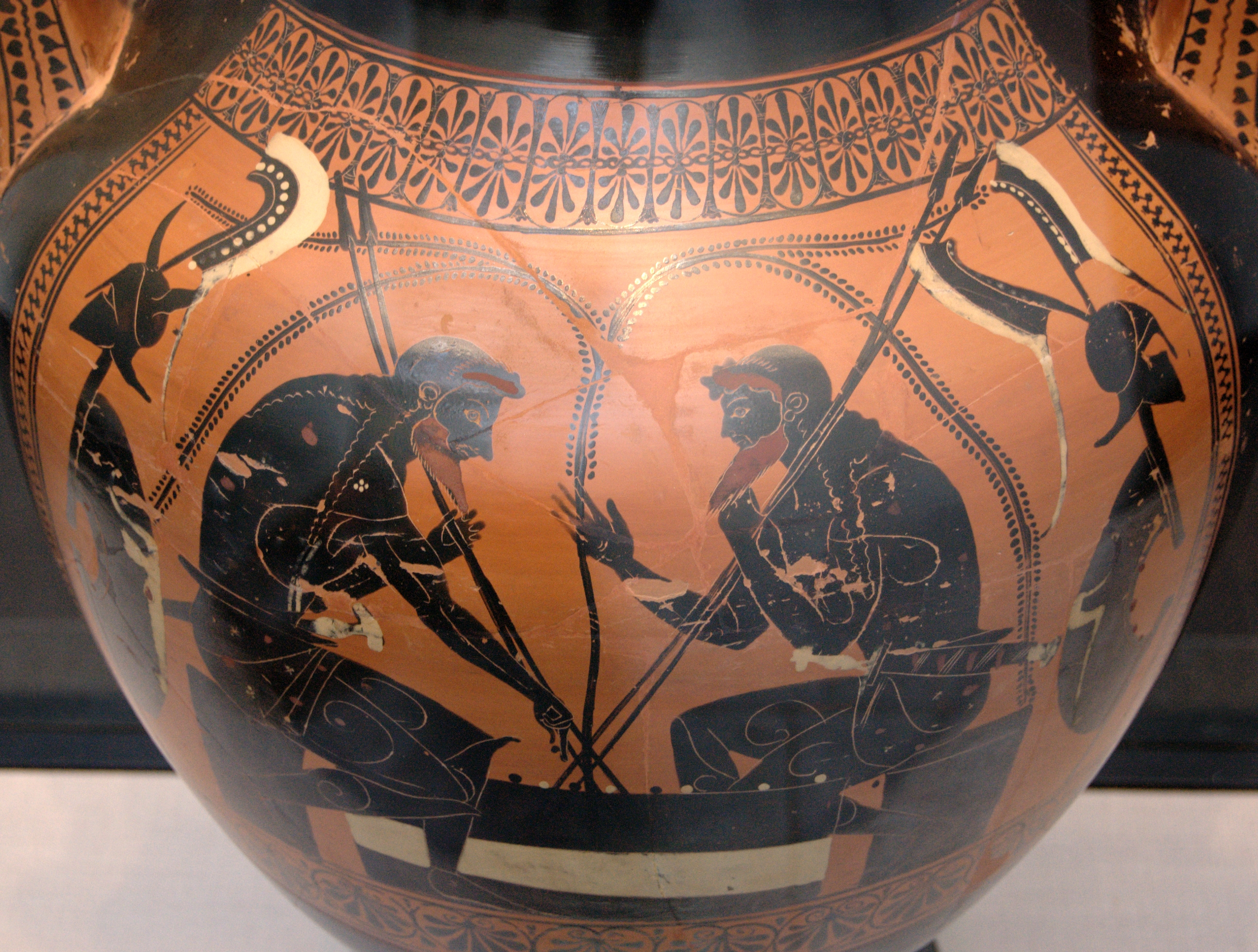 Achilles and Ajax playing a board game. Attic black-figure amphora, ca. 500 BC.